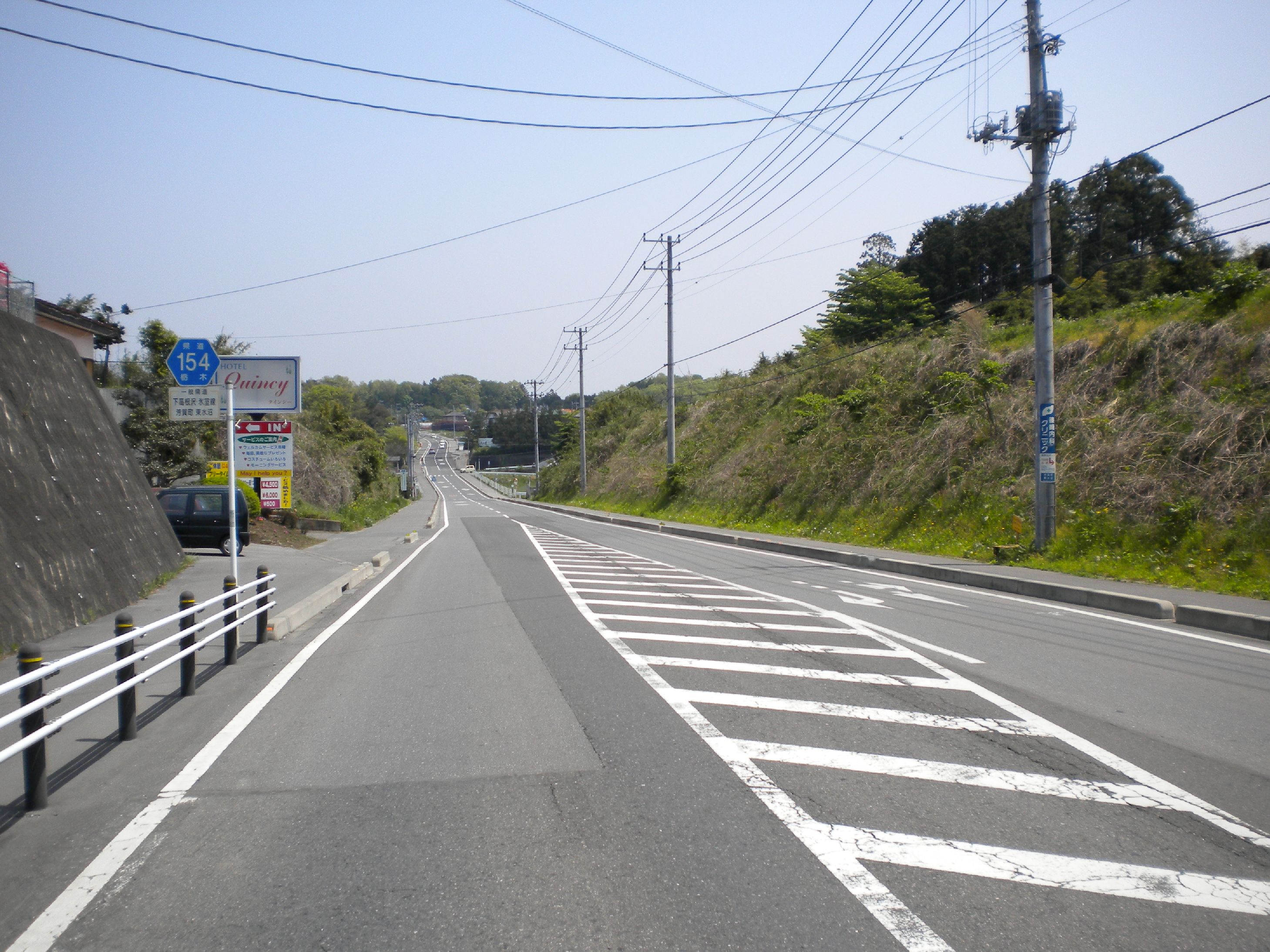 Tochigi prefectural road No.154 on Haga town